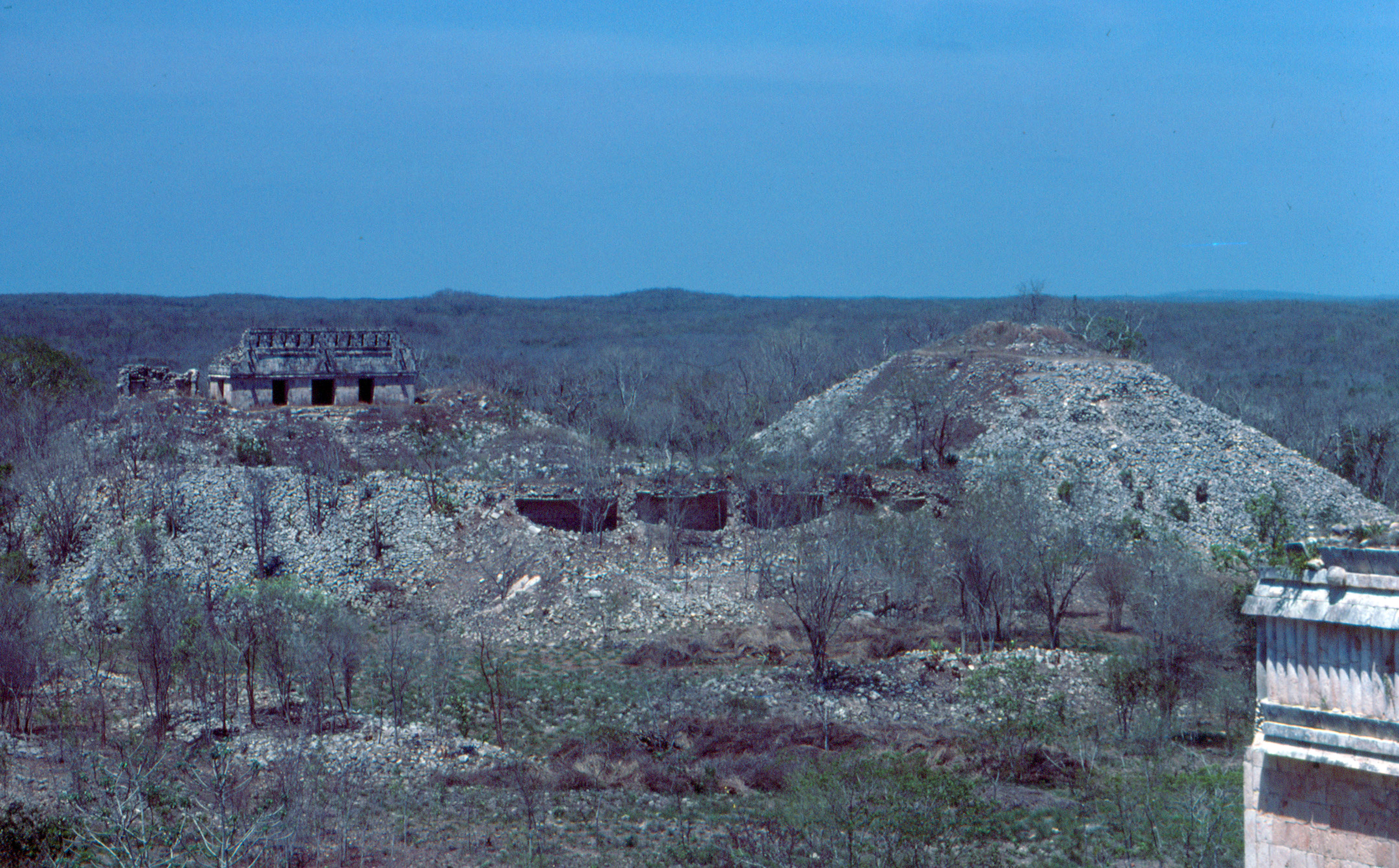 Uxmal, Yucatan, Mexico: Cementerio group